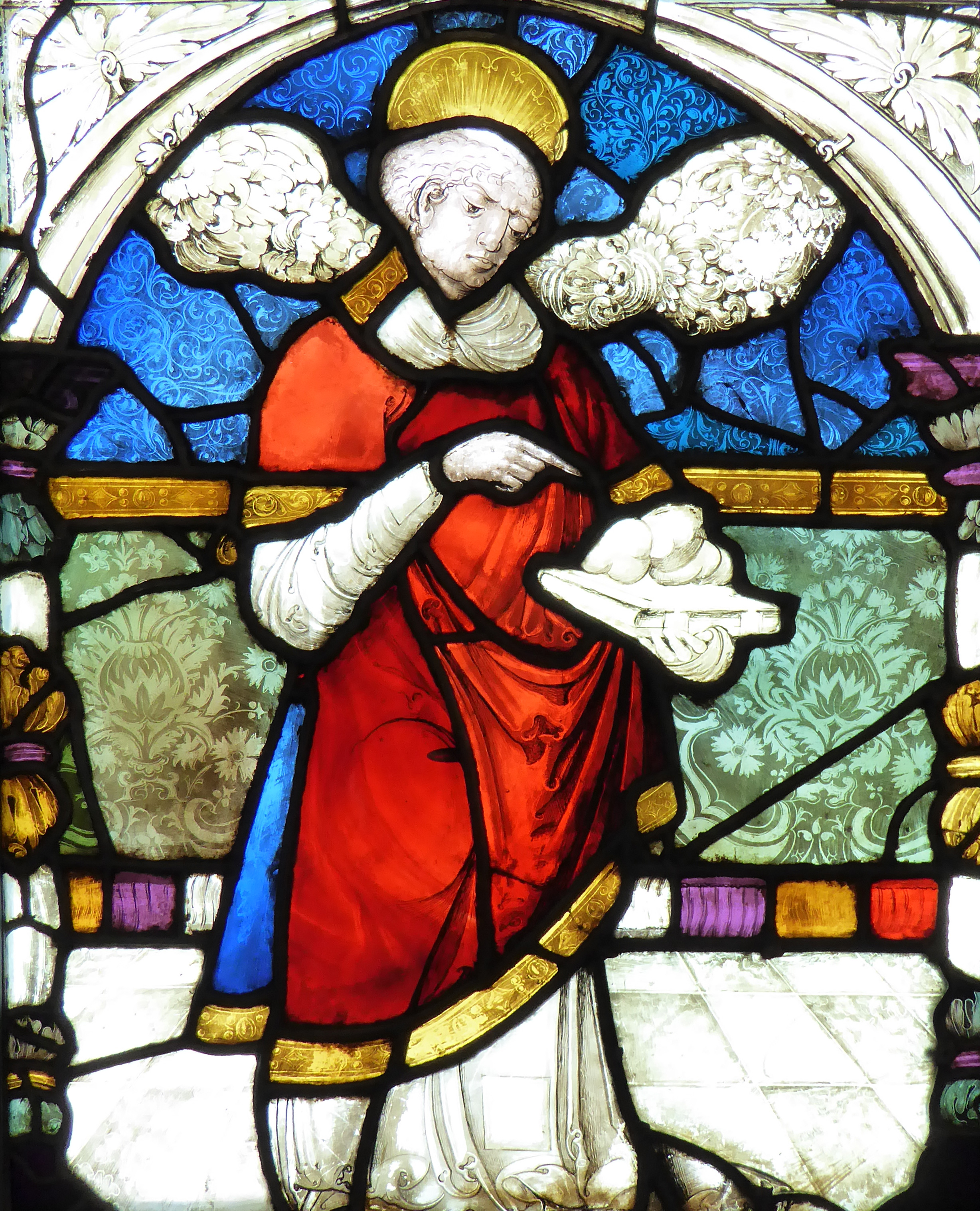 St. Stephen, Paint on Glas, Eggenburg in Austria, about 1520